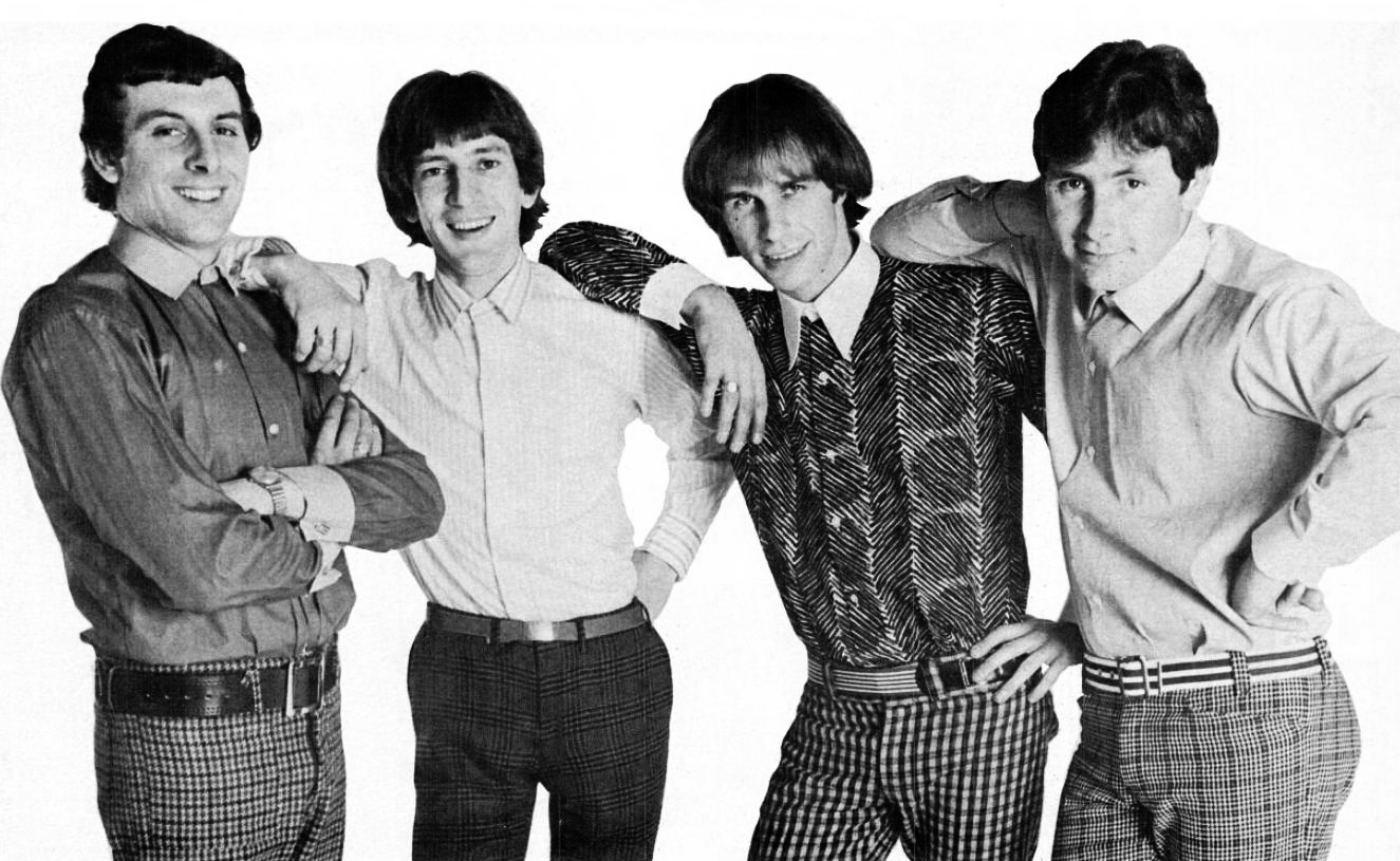 Trade ad for The Troggs's single "Wild Thing".To better adapt it to his respective Wikipedia article, the ad was cropped and cleaned in a graphics editing program. The original can be viewed at the source below.